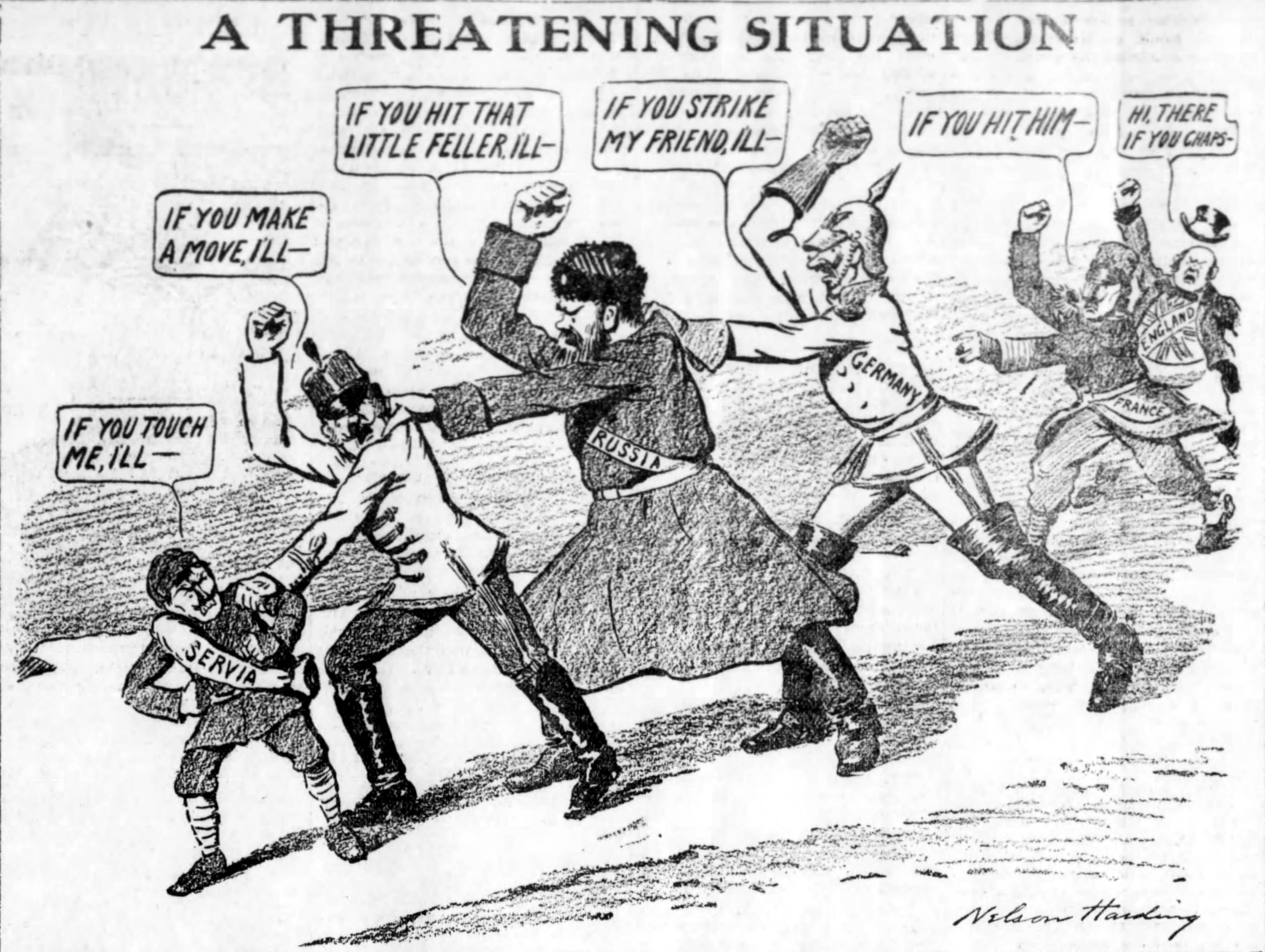 The original cartoon was published in the Brooklyn Daily Eagle, in 1912 (4th December) and by the title "A threatening situation". It was drawn by Nelson Harding and published again in The World's War Cartoons (Blood and Iron). The Balkans in Caricature, ed. by T. D. Hadjich, London: Cecil Palmer & Hayward, 1916, p. 29 (online at State Library Victoria: There it is explained as follows: "Serbia, having captured a port on the Adriatic, is threatened by Austria, who sees in the capture a gain for Russia. Russia promptly comes to the protection of Serbia and threatens Austria, whereupon Germany rushes to Austria’s protection and threatens Russia, and so on down the line." In the WWW it is often found unter the title of "The Chain of Friendship" and interpreted as depicting the web of alliances of WWI, since it also depicts the diplomatic situation of Europe in July 1914.